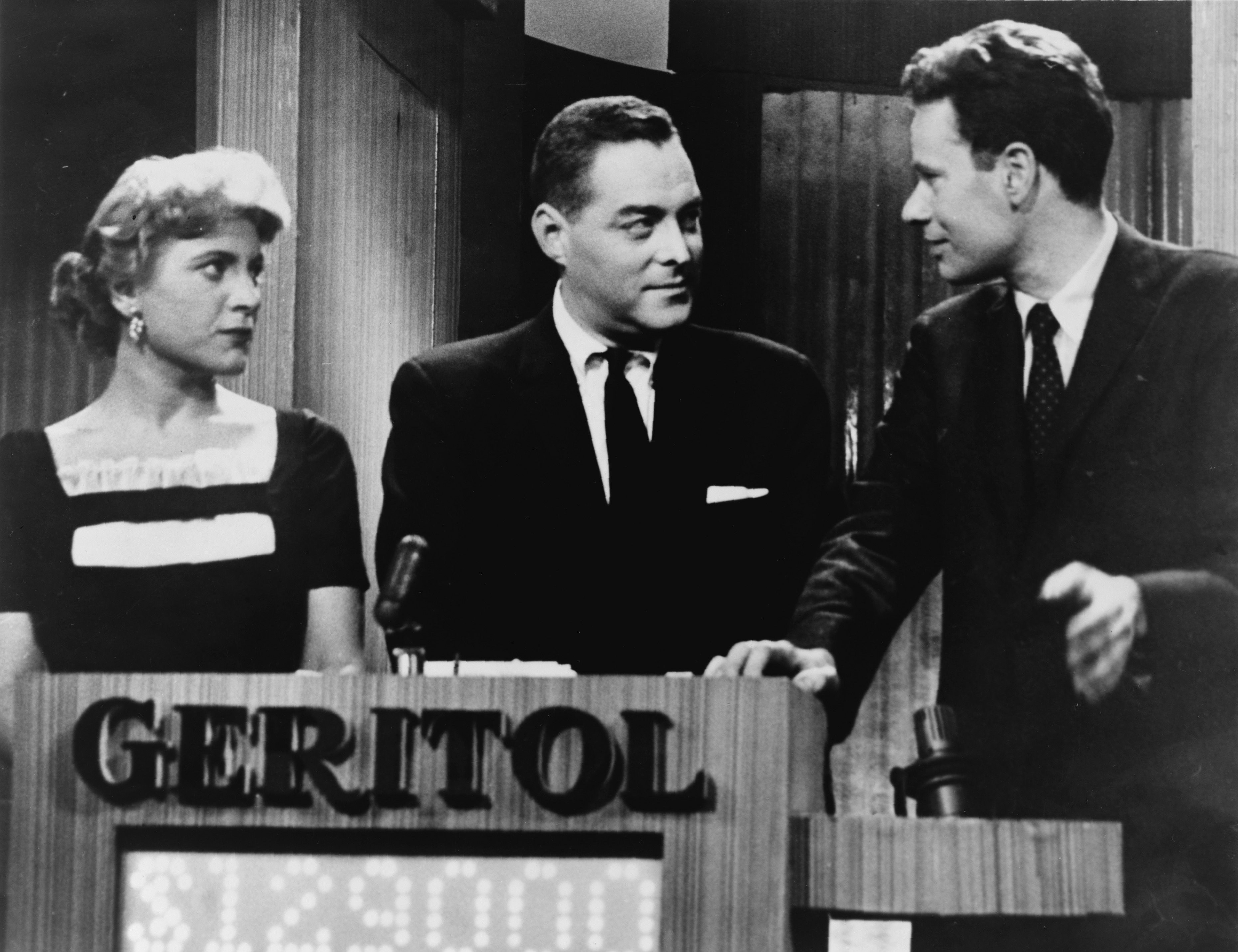 Quiz show "21" host Jack Barry turns toward contestant Charles Van Doren as fellow contestant Vivienne Nearing looks on / World Telegram & Sun photo by Orlando Fernandez. Van Doren's total winnings of $129,000 is displayed, documenting this photograph as being taken March 11, 1957, his last appearance on the show.